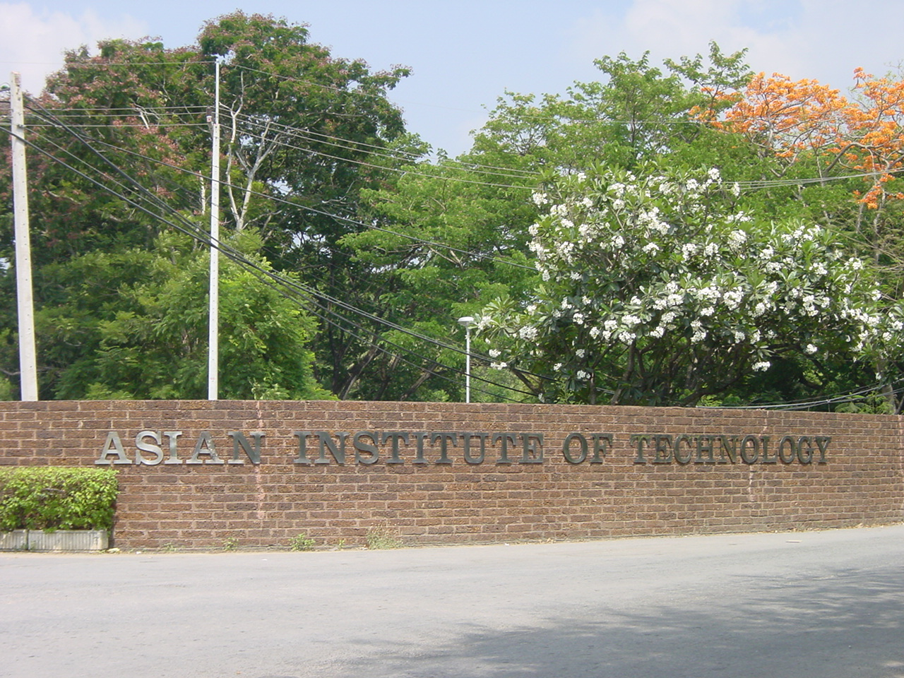 Asian Institute of Technology main gate